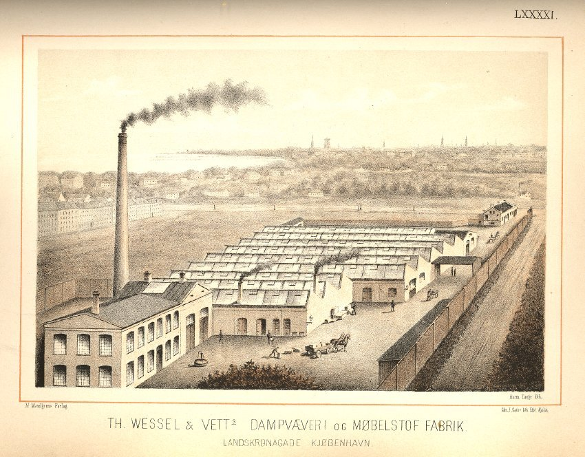 Th. Wessel & Vetts Dampvæveri og Møbelstof-Fabrik at Landskronegade in Østerbro, Copenhagen, Denmark